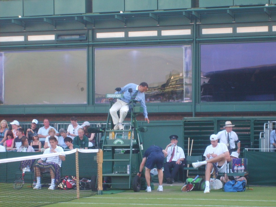 Time ! First day of Isner-Mahut match, Wimbledon 2010.